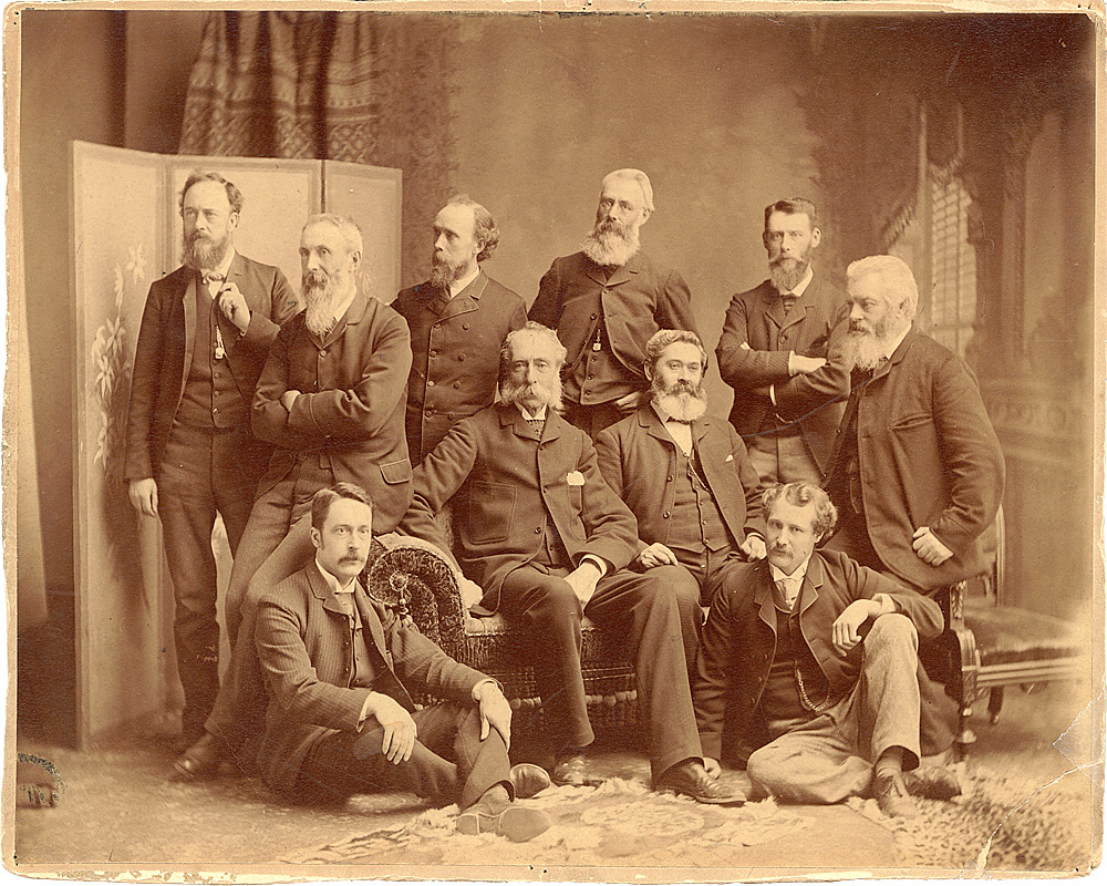 Ontario Society of Artists 1889 - William Daniel Blatchly, Marmaduke M. Mathews, John Wycliffe Lowes Forster, Thomas Mower Martin, Hamilton P. McCarthy, H. Hanniford, Robert Ford Gagen, Hon. G. Allen, William Revell, William Albert Sherwood